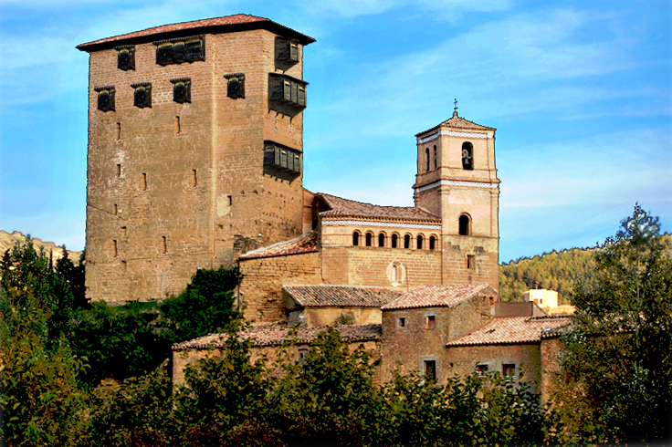 Castle of Biel (Zaragoza, Spain). Hypothetical virtual rebuilding of hoardings.